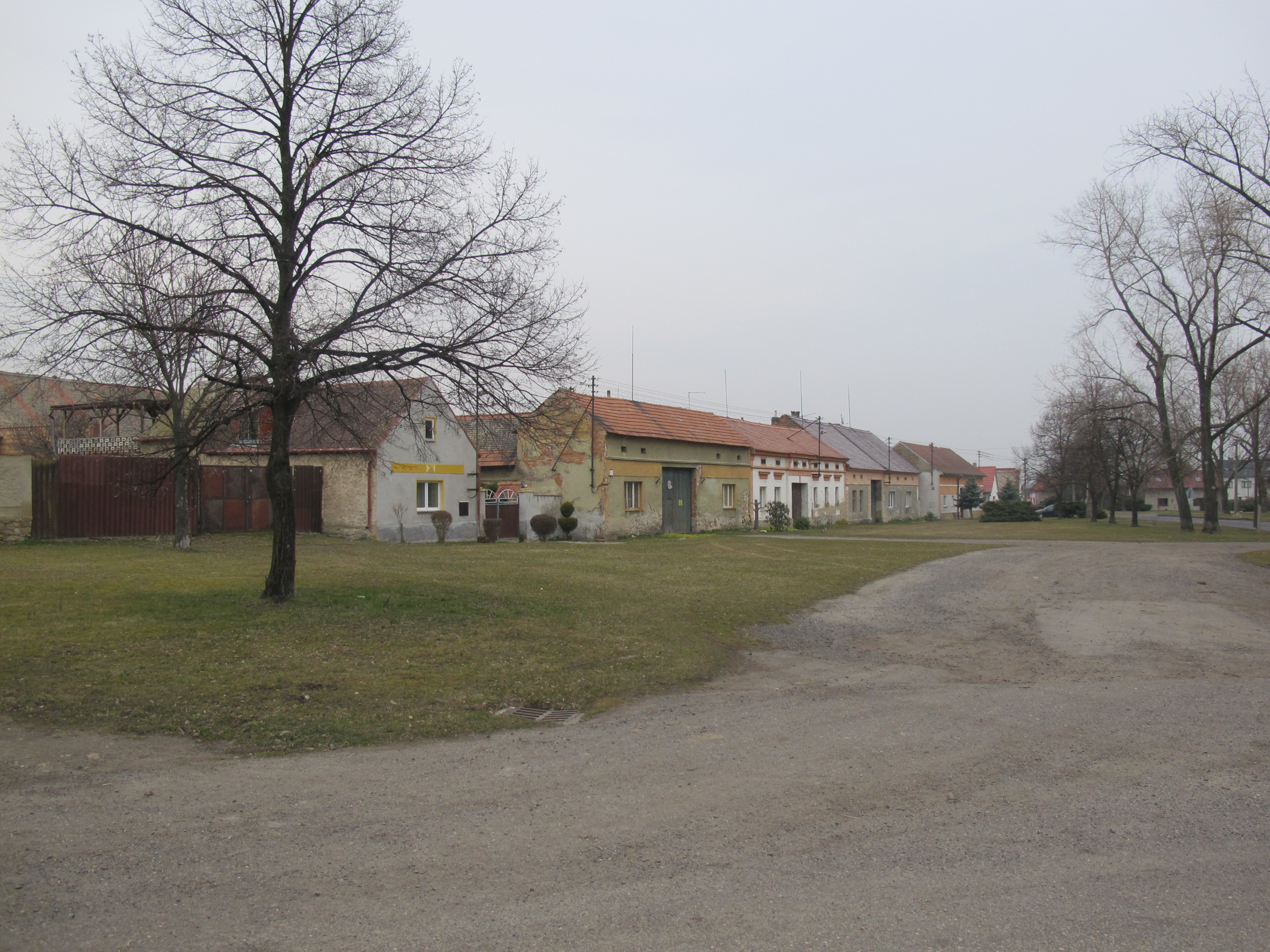 Village square in Třtěno